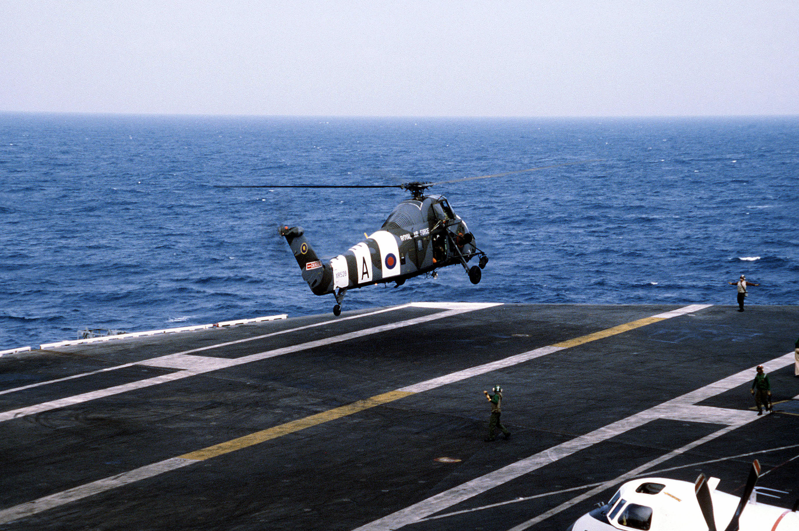 A British Royal Air Force Westland Wessex HC2 helicopter (s/n XR528) from No. 28 Squadron takes off from the flight deck of the U.S. Navy aircraft carrier USS Midway (CV-41) after refueling during Hong Kong exercise "Search and Rescue '82". 28 Squadron was based at RAF Sek Kong from 1978 to 1996.